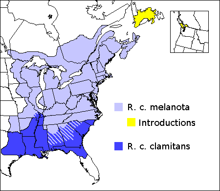 The North American habitat range of the Green Frog (Rana clamitans)